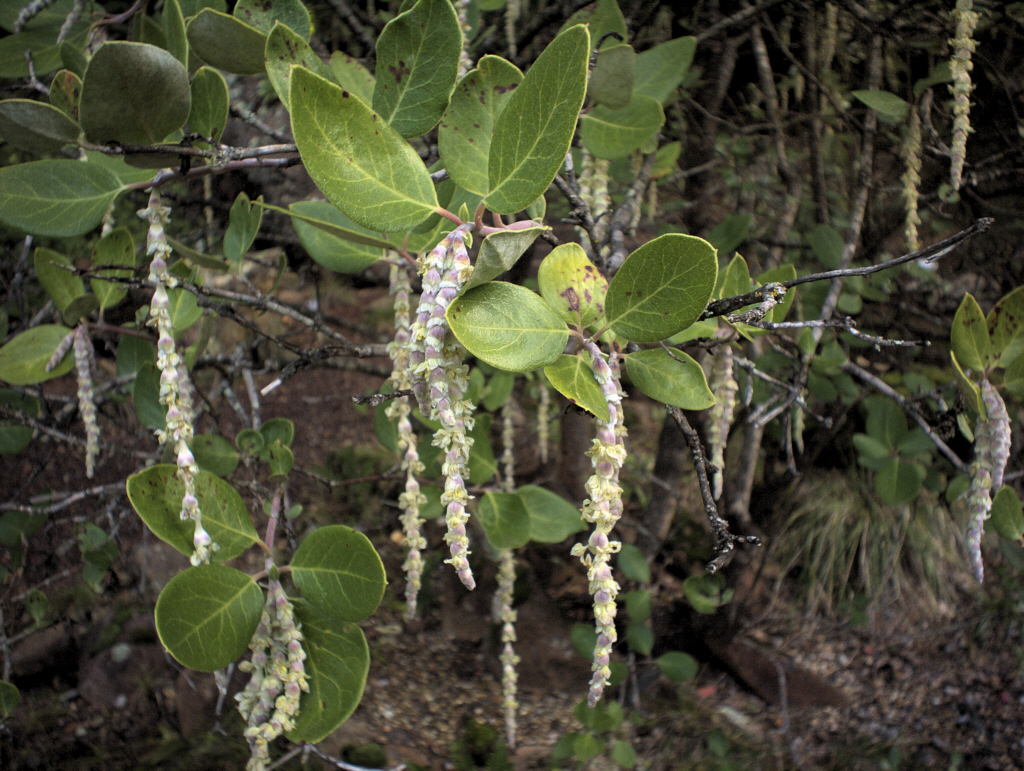 Garrya veatchii—canyon silktassel. Outer coast ranges of Southern California south into Baja California. Available in nursery trade since 19th century and widely planted in gardens, Photographed at Regional Parks Botanic Garden located in Tilden Regional Park near Berkeley, CA.